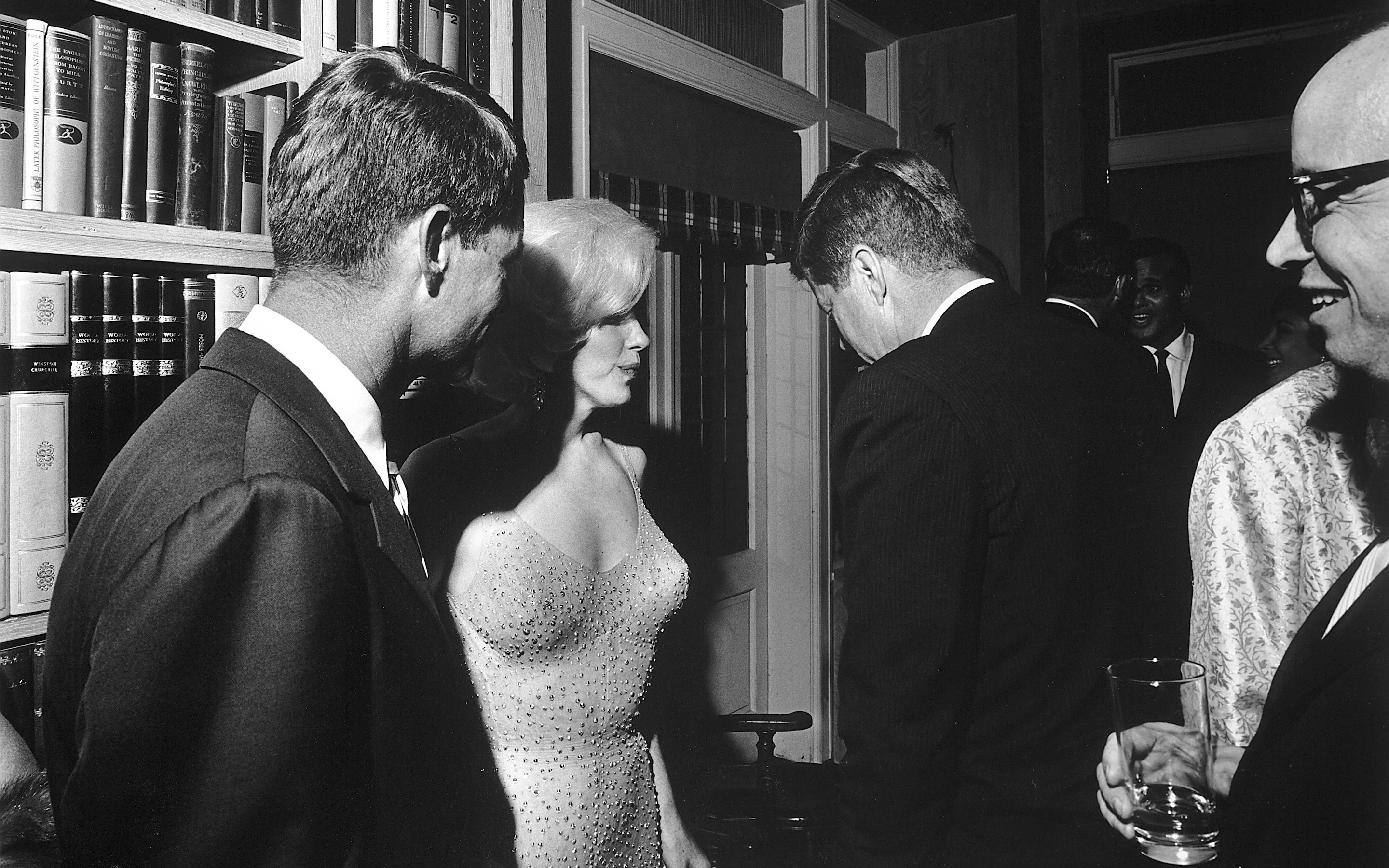 U.S. President John F. Kennedy (with his back to the camera), U.S. Attorney General Robert Kennedy (far left), and actress Marilyn Monroe, on the occasion of President Kennedy's 45th birthday celebrations at Madison Square Garden in New York City. Arthur M. Schlesinger, Jr. is at the far right. Facing the camera in the rear appears singer Harry Belafonte.